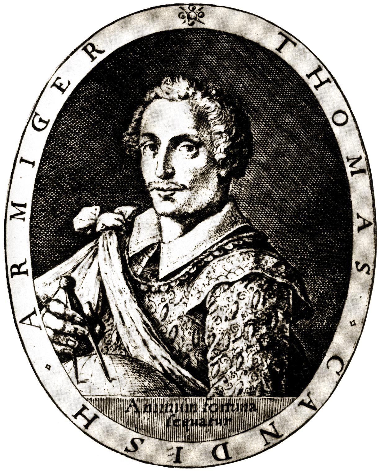 An engraving of English explorer Sir Thomas Cavendish (or Candish) (1560–1592), who was known as "the Navigator" because he was the first to deliberately set out to circumnavigate the globe. The engraving contains the words "Thomas Candish, Armiger. Animum fortuna sequatur [The soul follows chance]".